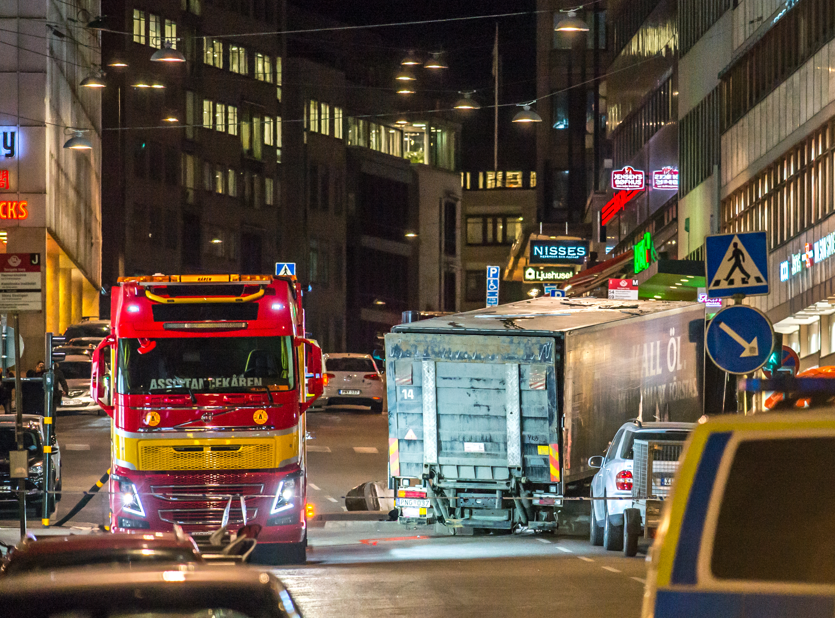 The terrorist attack in Stockholm April 7, 2017. Truck transported away during the night.